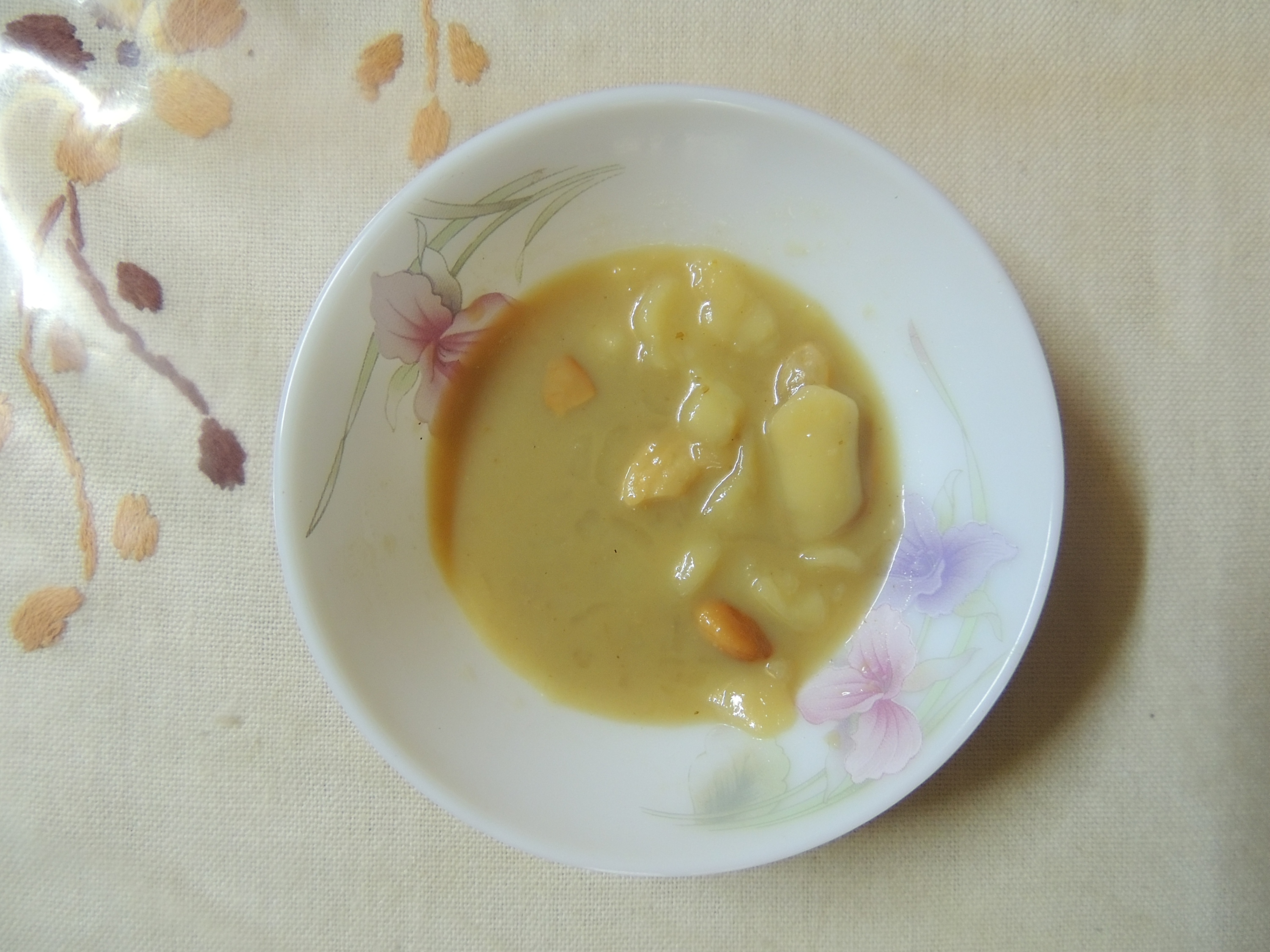 Kheer